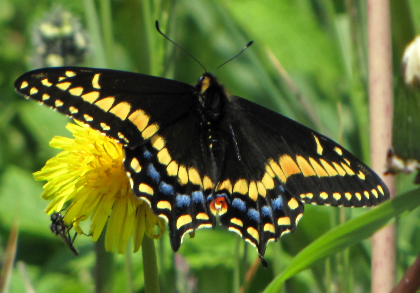 Short-tailed Swallowtail (Papilio brevicauda), Elliston, Newfoundland and Labrador, Canada